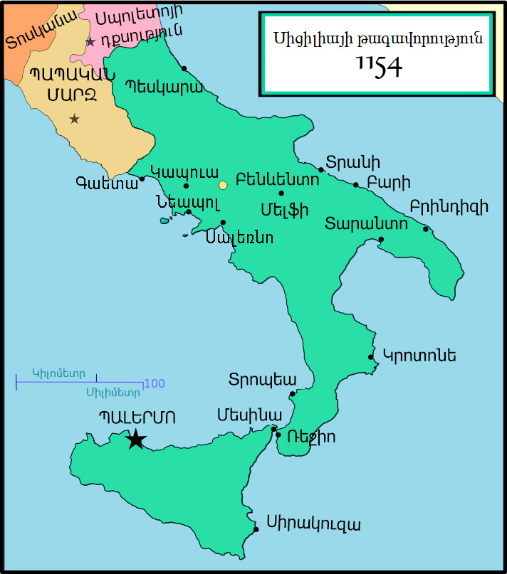 Kingdom of Sicily in 1154